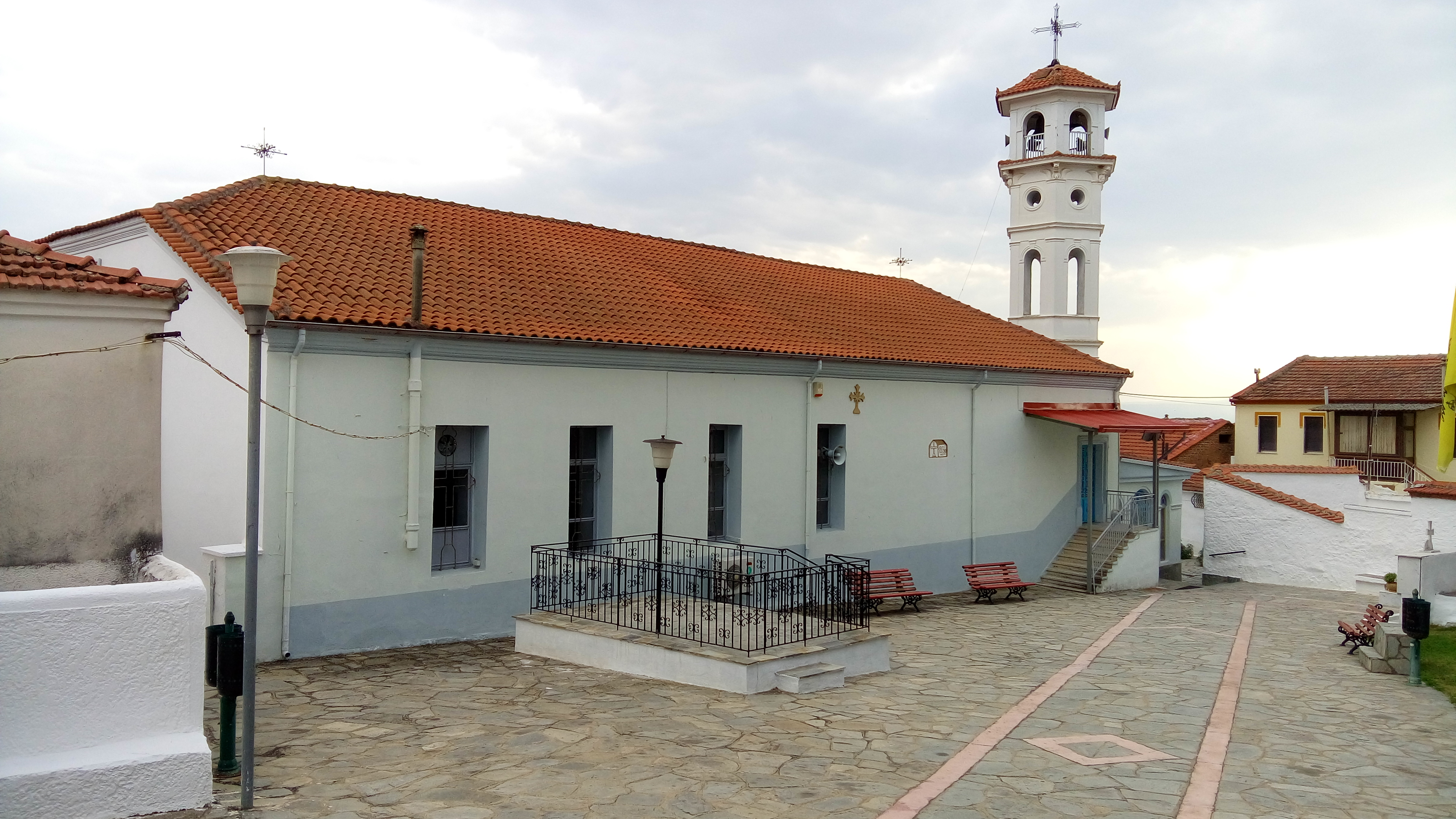 Ο Ναός της Κοιμήσεως της Θεοτόκου